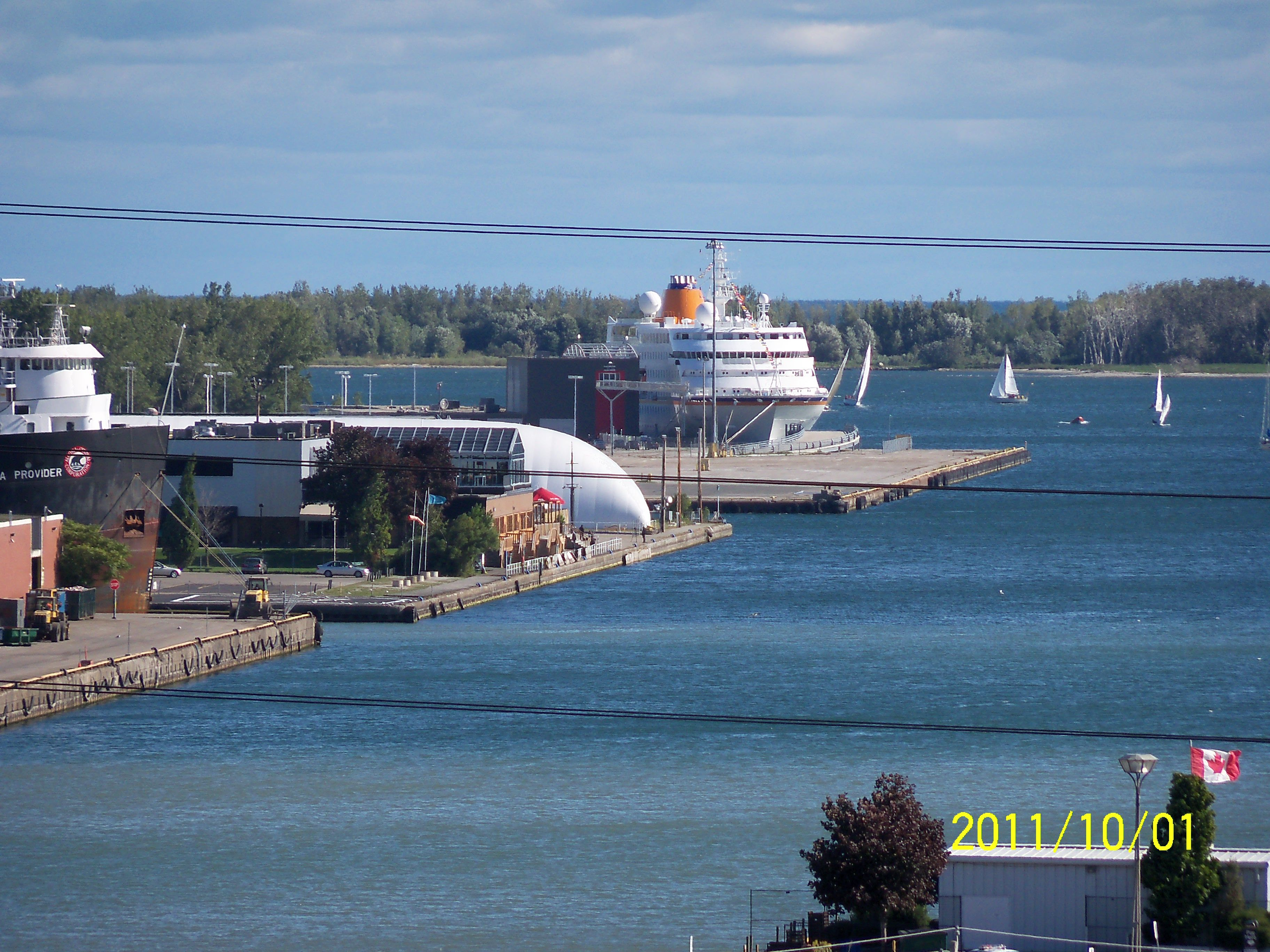 cruise ship and lake freighter, eastern gap, toronto -a